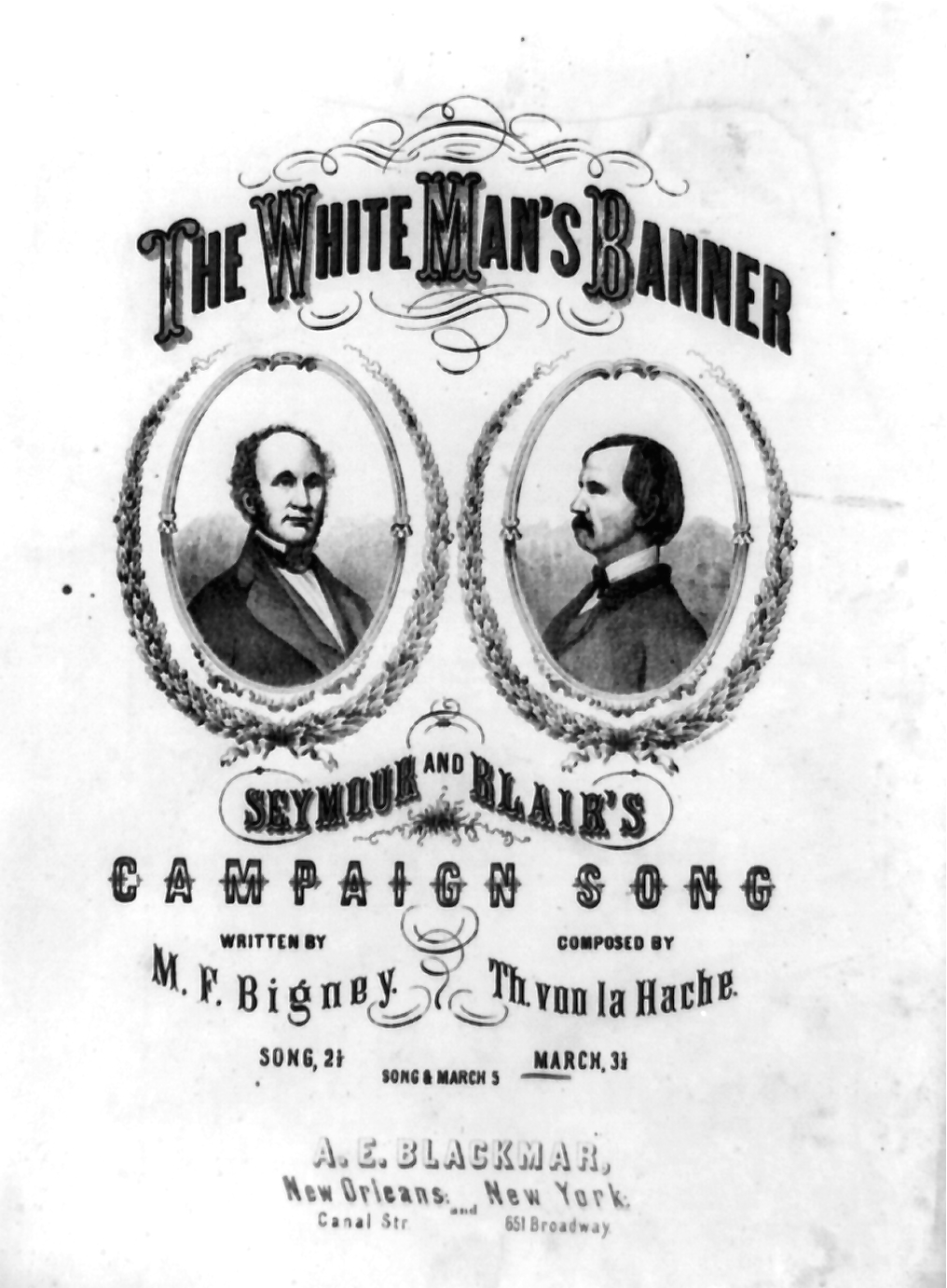 "The White Man's Banner. Seymour and Blair's campaign song". Sheet music cover, 1868, promoting Democratic Party candidates in the US Presidential election.